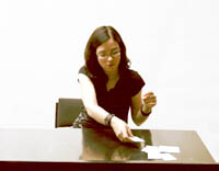 This is a photograph taken from a presentation of Masters student work submissions for the MA in Creative Technology in Salford. The photo shows student Jess Kilby presenting her interactive installation "The Center of the Universe".